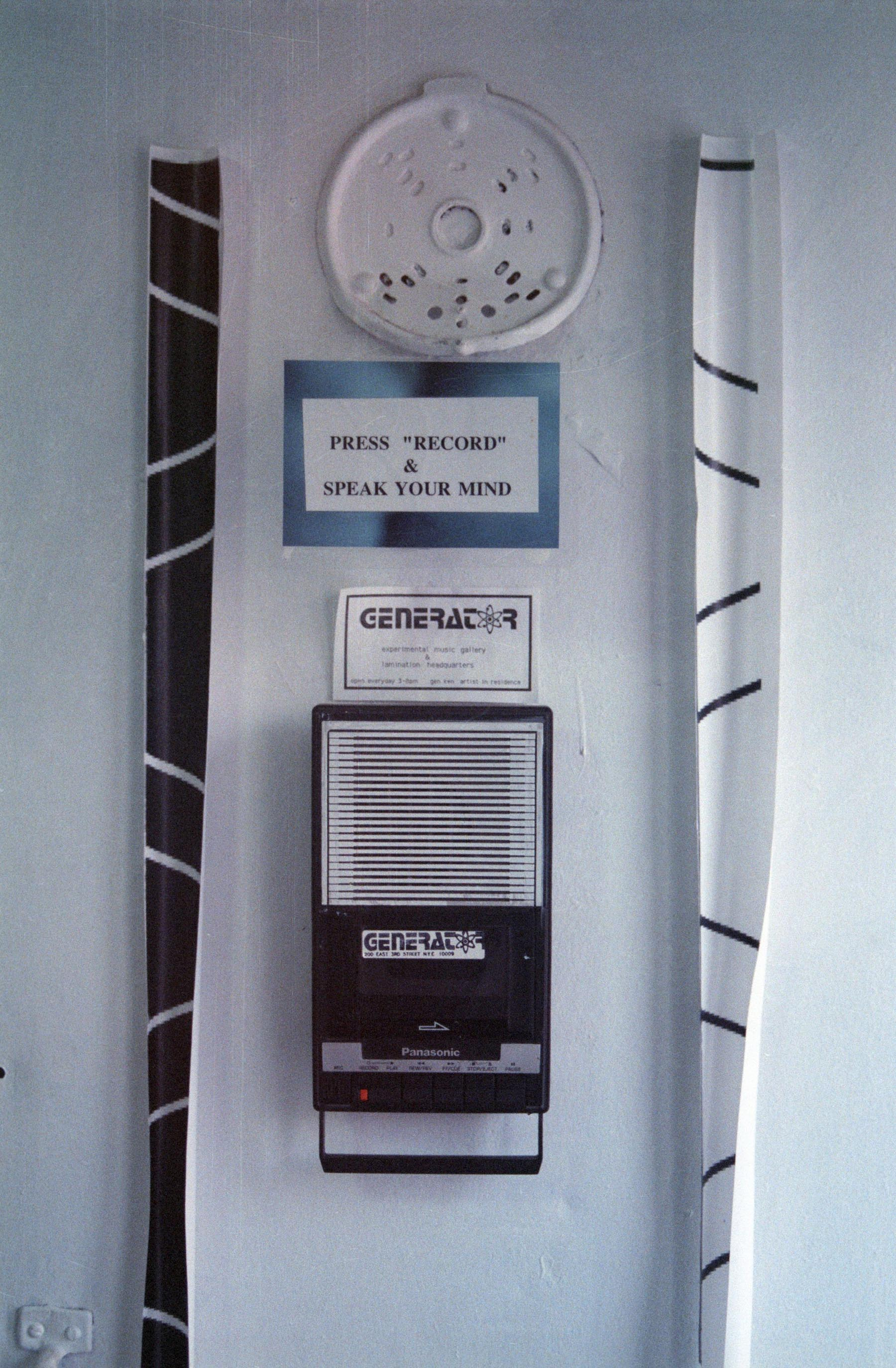 Interactive cassette player on the door of Generator Sound Art Gallery 1989